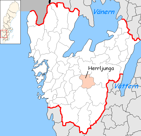 Herrljunga Municipality in Västra Götaland County Designed by me. Mere outlines are a PD source from